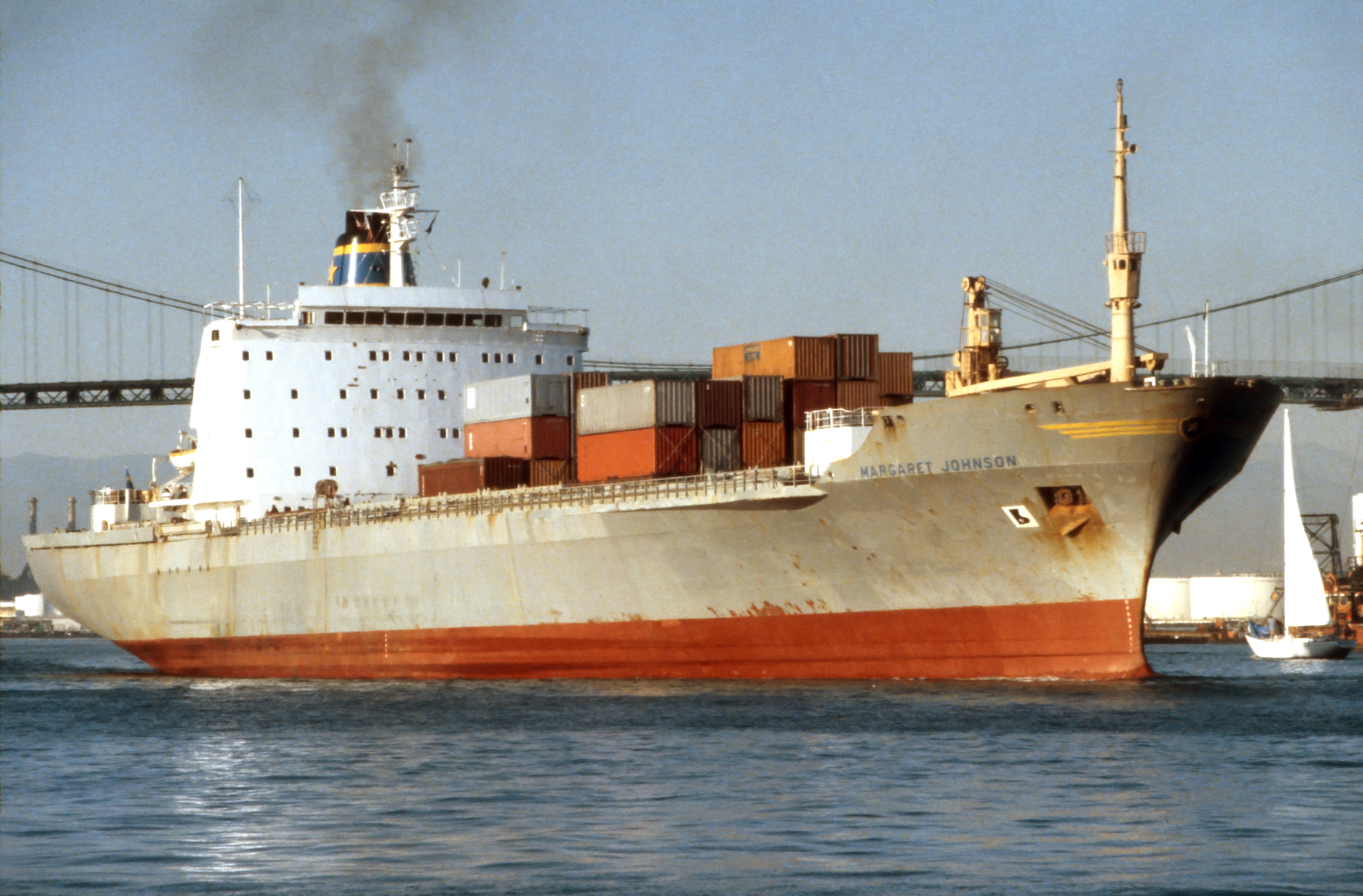 MARGARET JOHNSON - IMO 6929925. Container ship leaving Los Angeles harbor. Ship built 1970.